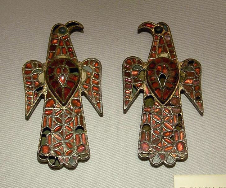 Two eagle-shaped Visigothic fibulae.